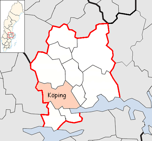 Köping Municipality in Västmanland County, Sweden, after Heby Municipality was transferred to Uppsala County